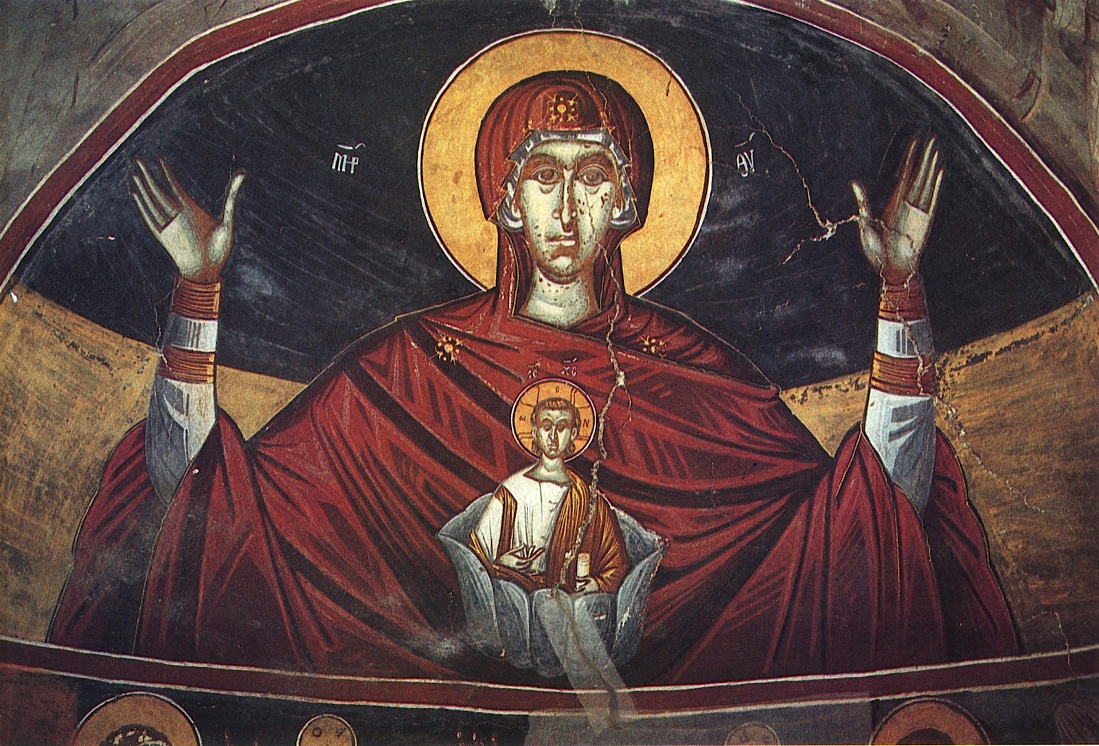 Saint Nicholas Church in Eani Kaliani, Platytera Fresco, 1542